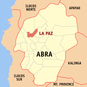 Map of Abra showing the location of La Paz